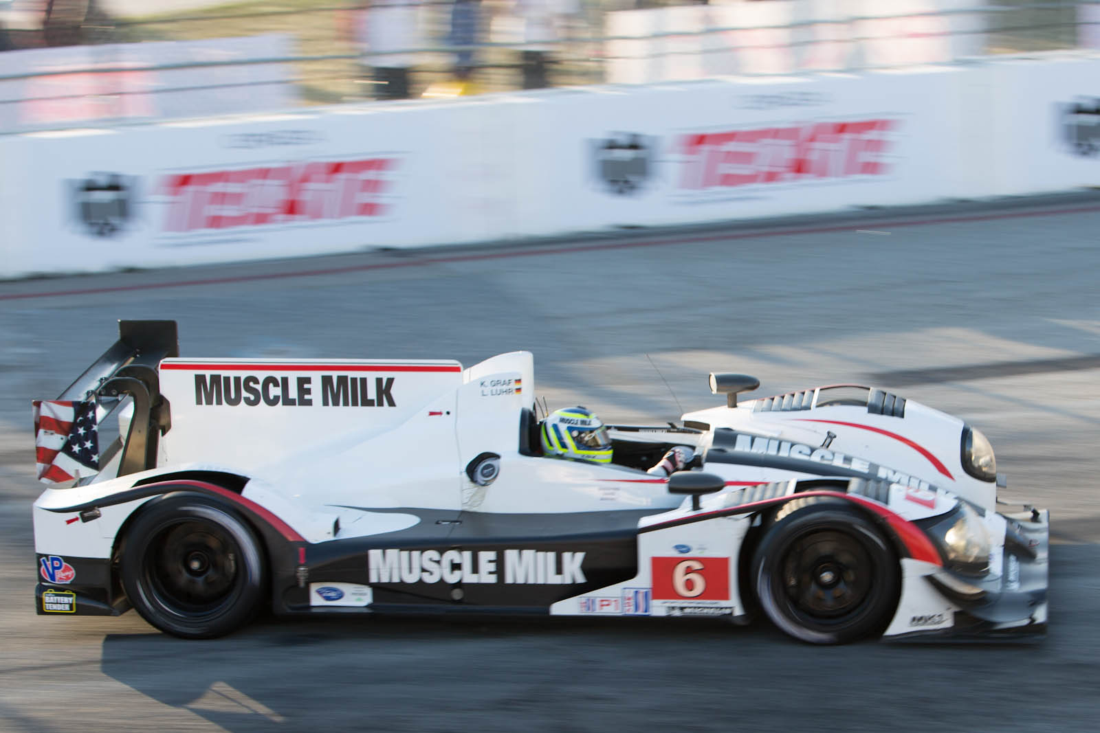 Klaus Graf and Lucas Luhr won the Tequila Patrón American Le Mans Series at Long Beach for the second straight season.